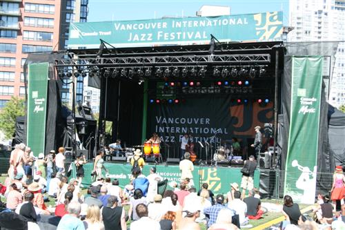 Yaletown audience 5